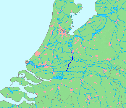 Location of a waterway (river/canal) in the Netherlends